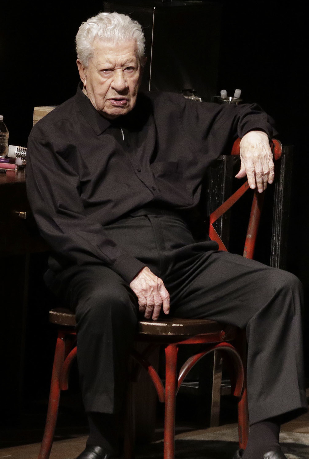 Viernes 30 de agosto de 2019Teatro San Jerónimo – Independencia. El Gobierno de la Ciudad de México a través de José Alfonso Suárez del Real, secretario de Cultura de la Ciudad de México, rindió homenaje al actor Ignacio López Tarso por 71 años dedicados al teatro, además se presentó la declaratoria del actor Ignacio López Tarso como Patrimonio Cultural Vivo de la Ciudad de México.Fotografía: Tania Victoria/ Secretaría de Cultura de la Ciudad de México